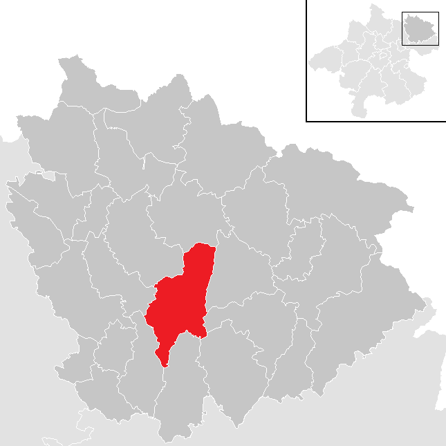 district Freistadt